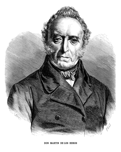 Spanish Politician Martín de los Heros (1783-1859)